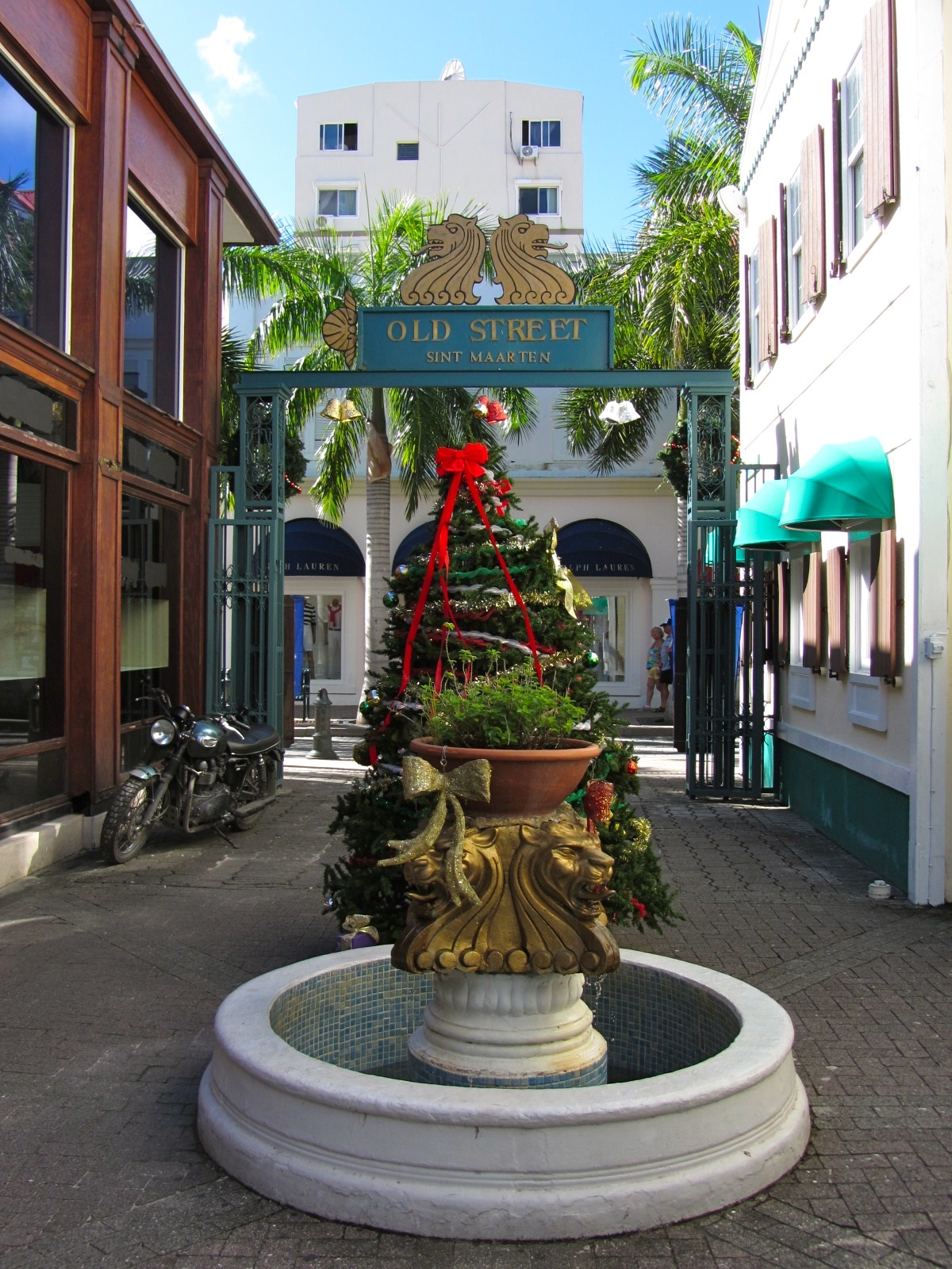 Old Street Fountain with Christmas Tree